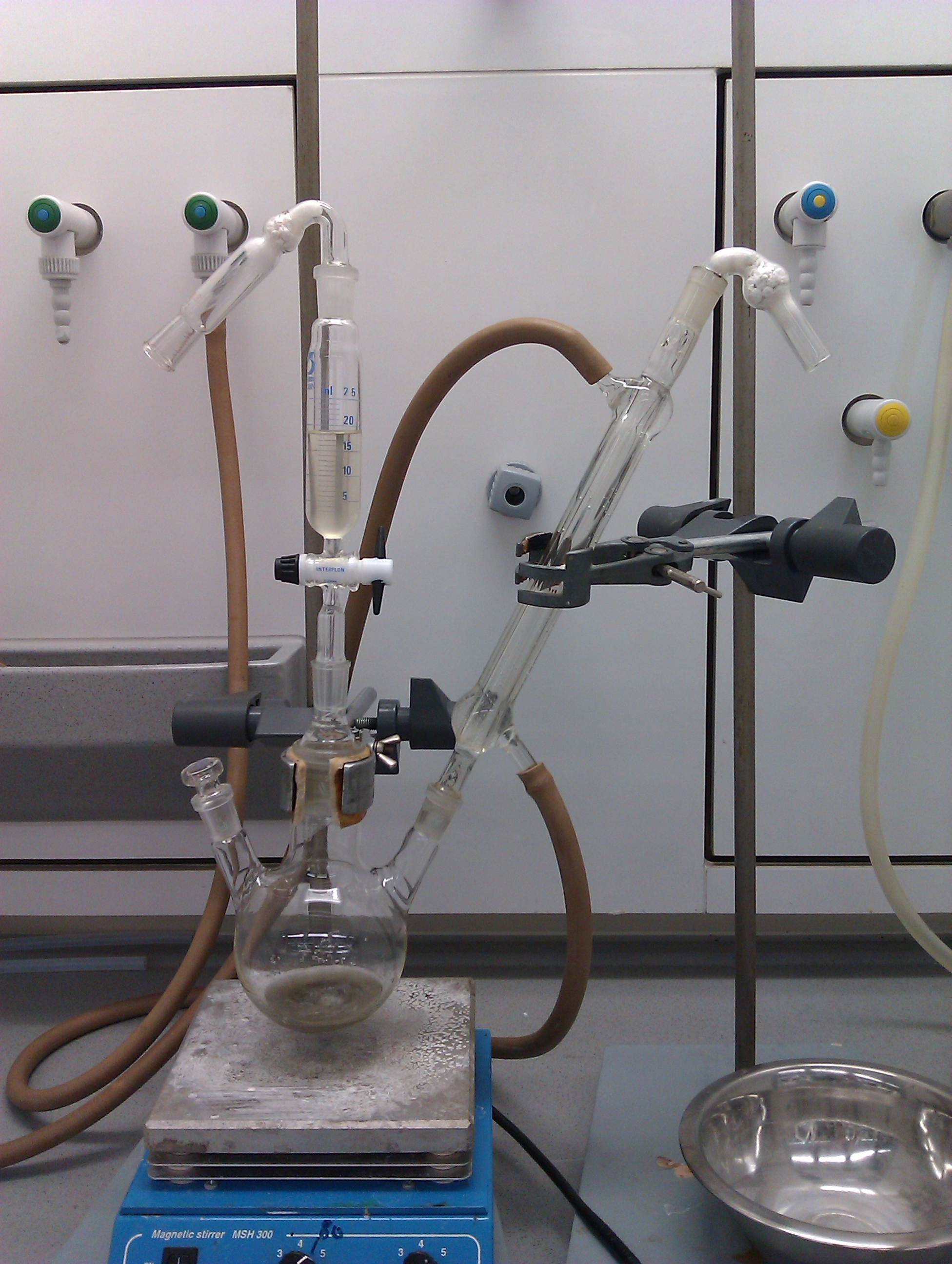 Grignard reaction